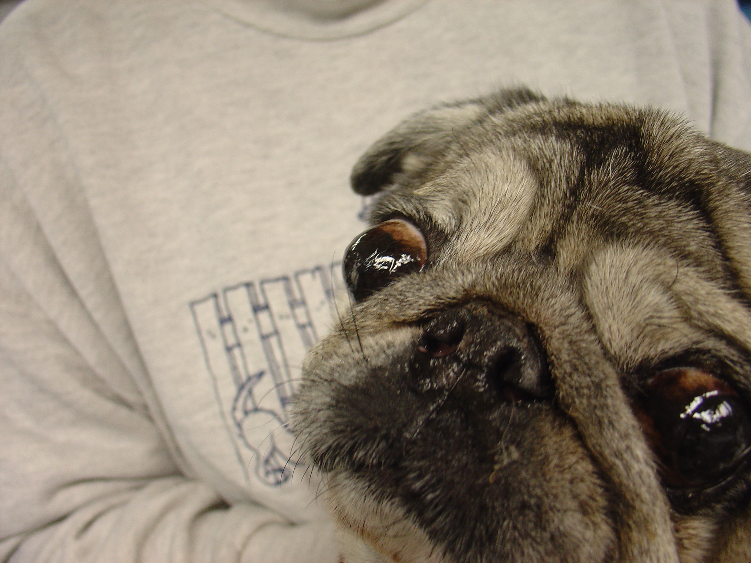 Exophthalmos in a nine year old Pug with accompanying exposure keratitis.